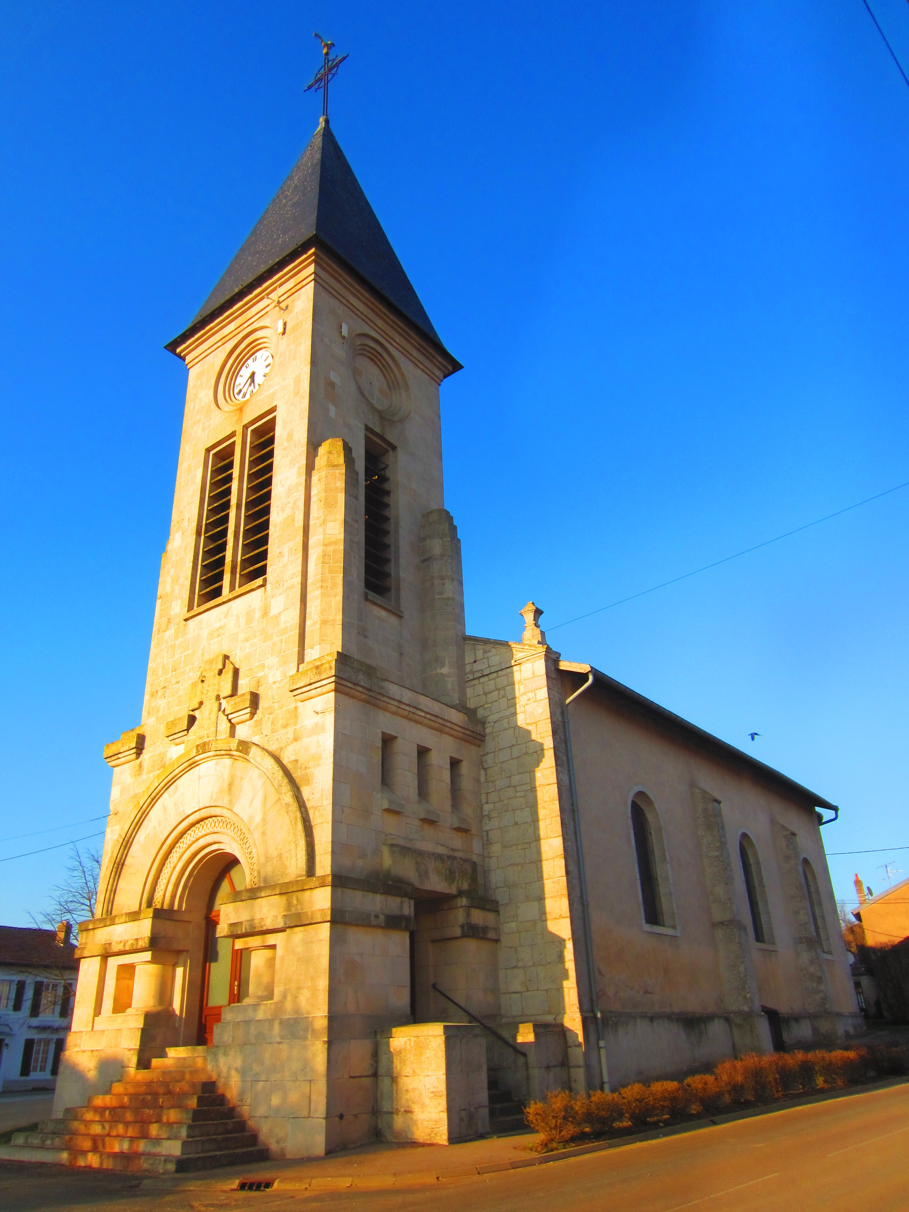 Vieville Haye church